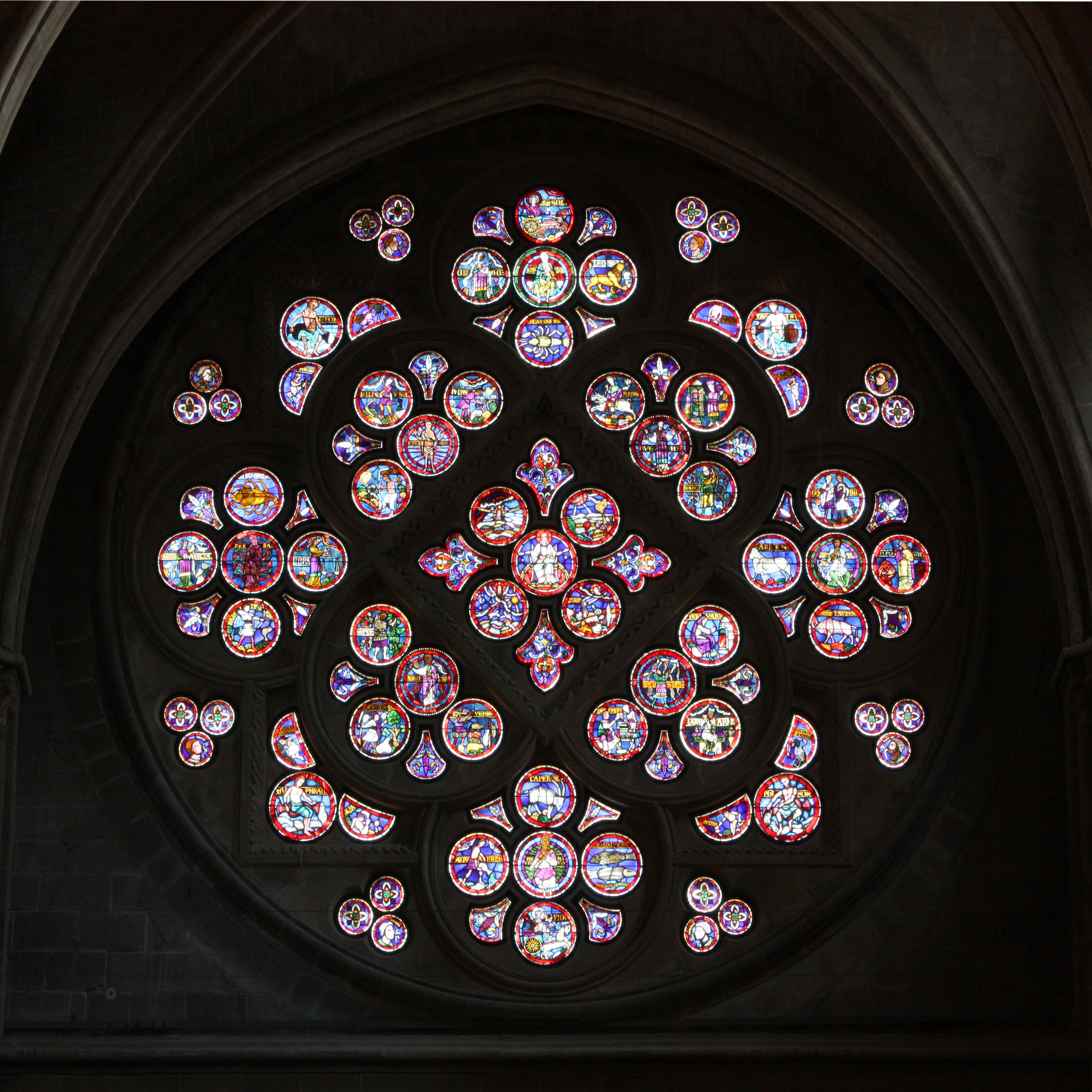 South rose window of the Lausanne Cathedrale